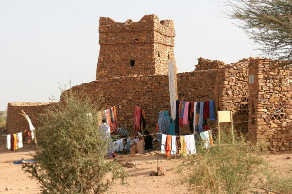 Old tower, Ouadane, Mauritania